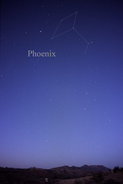 Photography of the constellation Phoenix